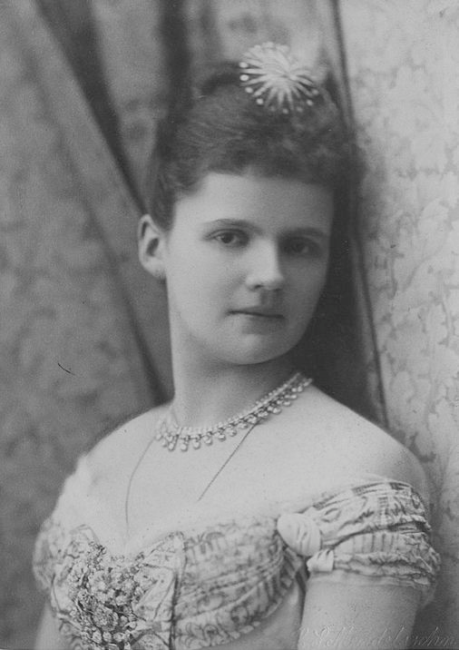 Princess Helene, Duchess of Albany, nee Waldeck-Pyrmont in 1882